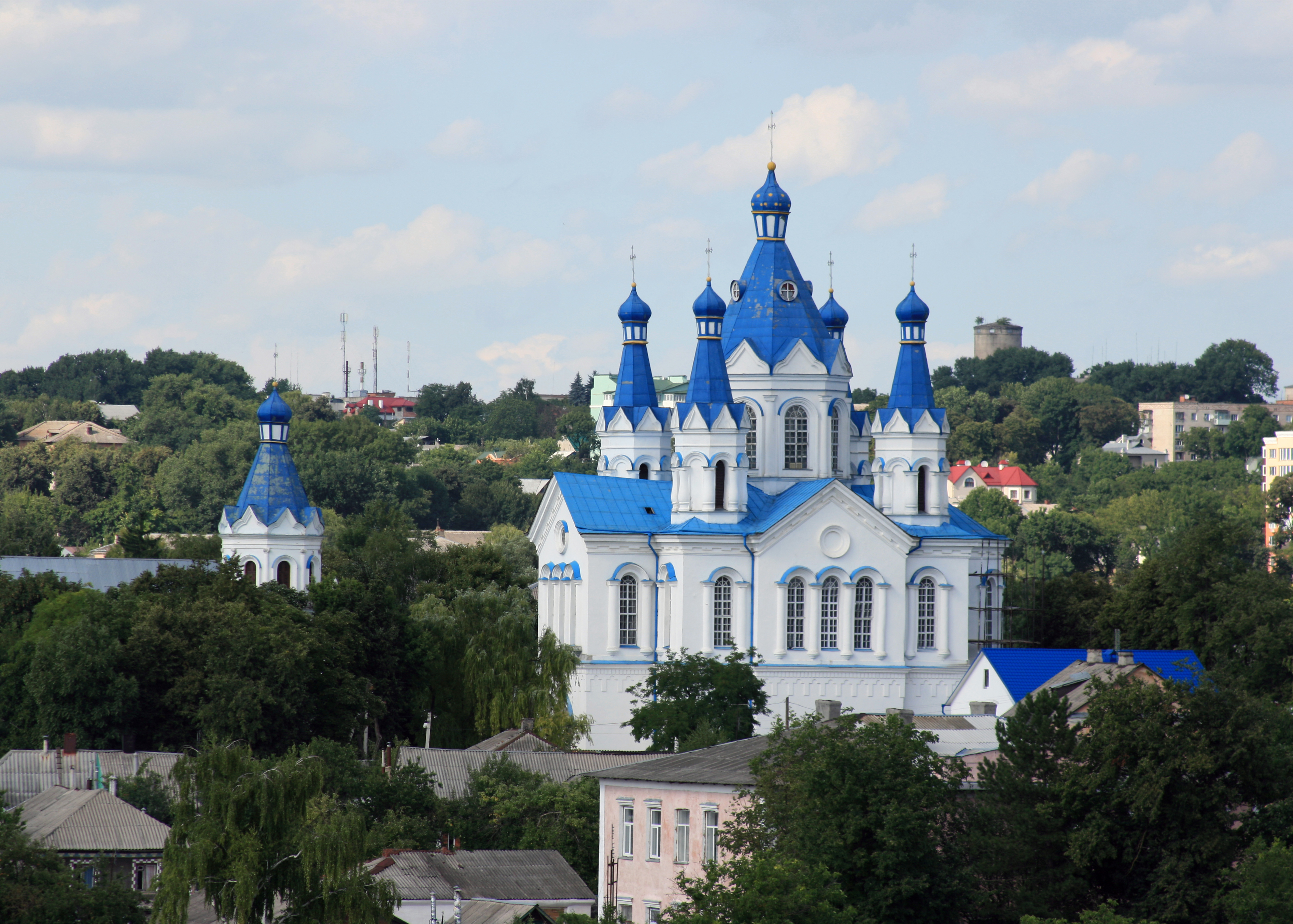 St. George Orthodox Cathedral in Kamyanets Podilsky